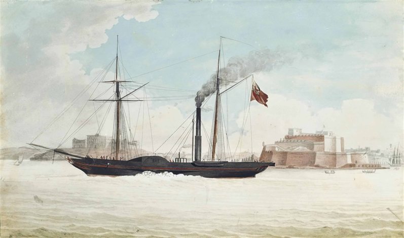 Firebrand emerging from Grand Harbour, Valetta, Malta , 1832, by Nicolas S. Cammillieri Medium: pencil, pen and black ink and watercolour on paper Size: 27.7 x 45.8 cm. (10.9 x 18 in.)